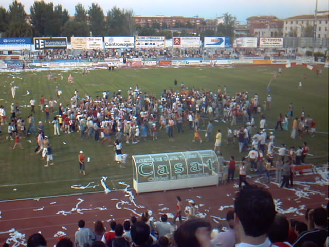 Fans of Club Deportivo Don Benito celebrating after climbing to the 2nd Division B in season 2003/2004.